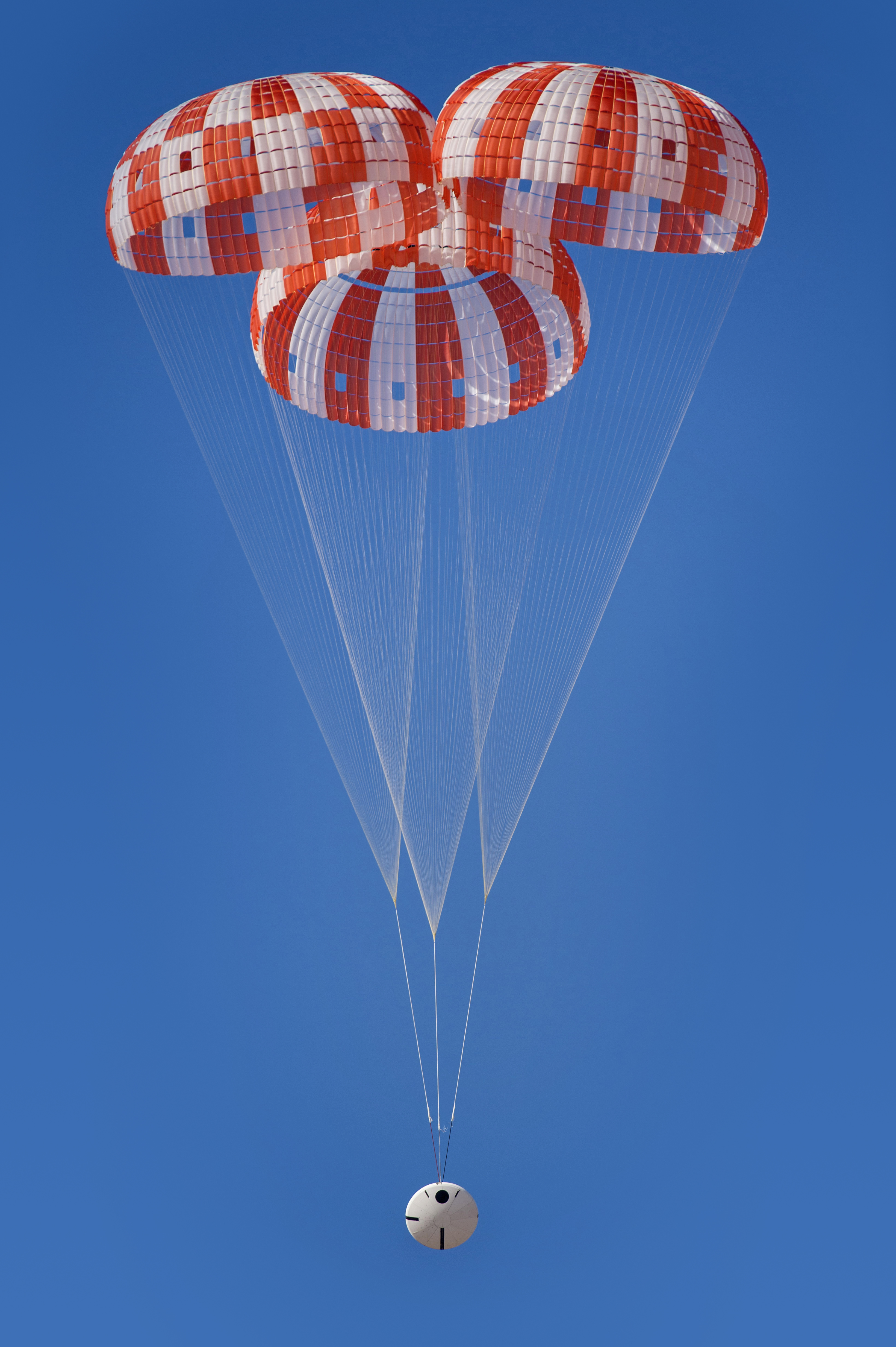 Engineers successfully tested the parachutes for NASA's Orion spacecraft at the U.S. Army Yuma Proving Ground in Arizona Wednesday, March 8. This was the second test in a series of eight that will certify Orion's parachutes for human spaceflight. The test, which dropped an Orion engineering model from a C-17 aircraft at 25,000 feet, simulated the descent astronauts might experience if they have to abort a mission after liftoff.